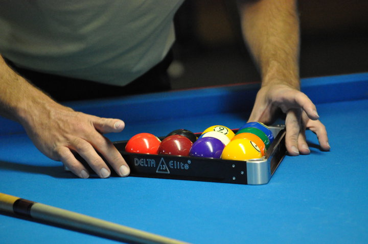 Standard 10-ball game with billiard balls with rack. Note the position of the 1, 2, 3, & 10 balls.